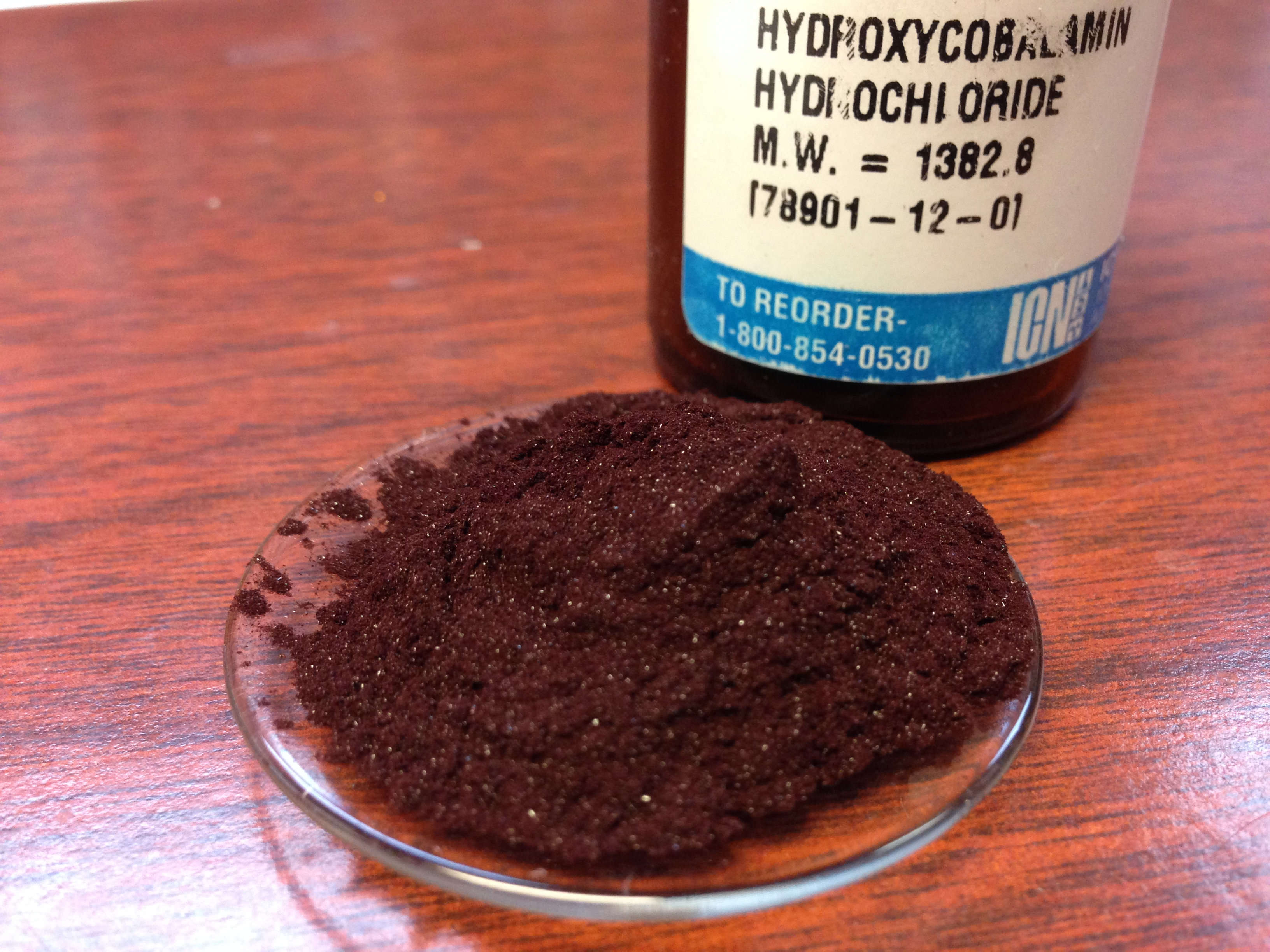 At standard conditions, hydroxyocobalamin is an extremely dark red crystalline solid.